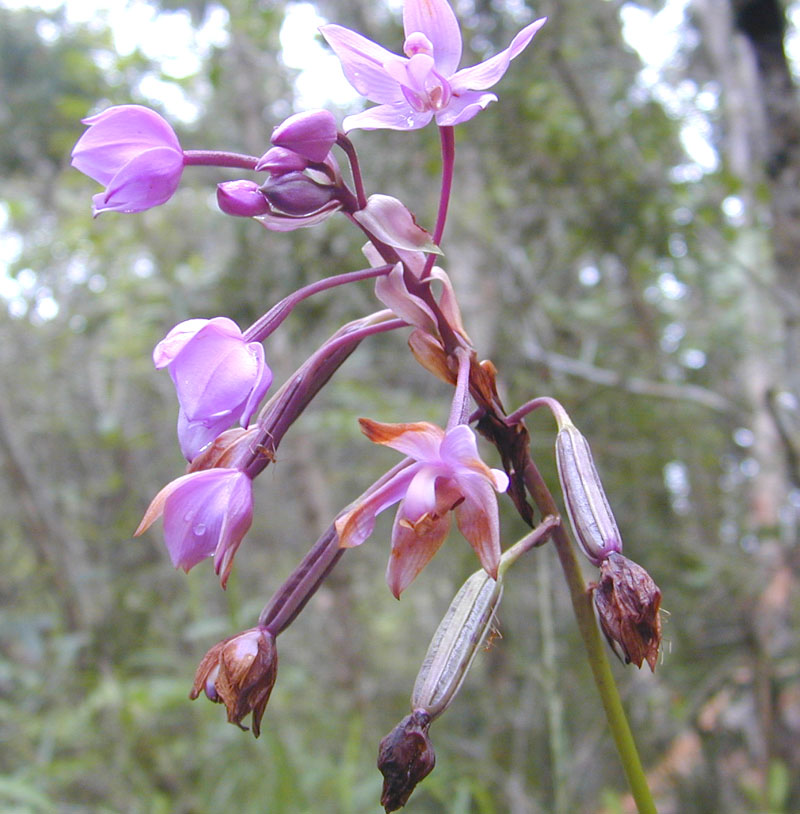 Raceme of flowers through fruit sequence in the orchid, Spathoglottis plicata